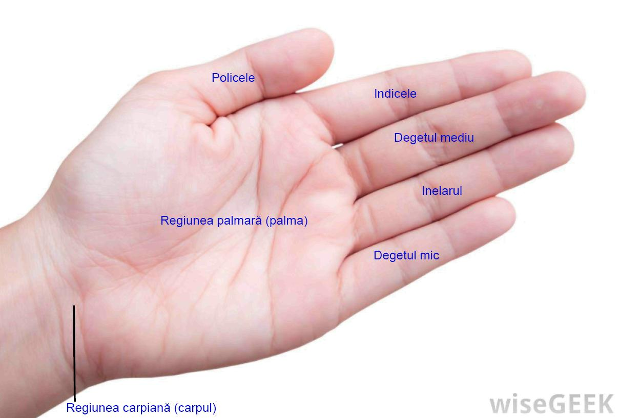 Left Hand Outstretched